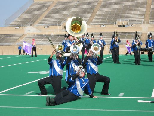 North Mesquite High School band at 2002 Plano Marching Contest. (Description was provided by User:Naryathegreat and obtained from English Wikipedia Image:Nmhsband.jpg.)